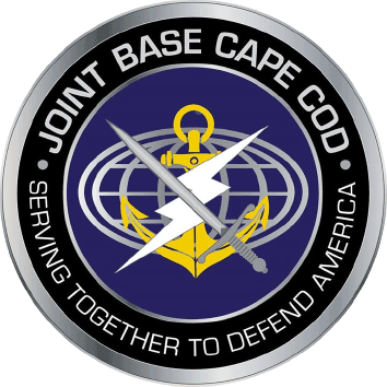 Logo of Joint Base Cape Cod.